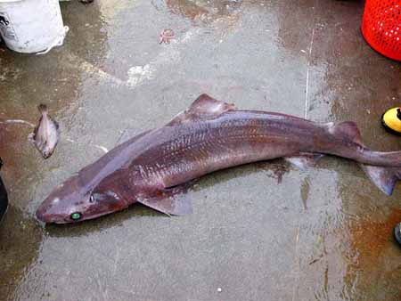 Taiwan gulper shark (Centrophorus niaukang)